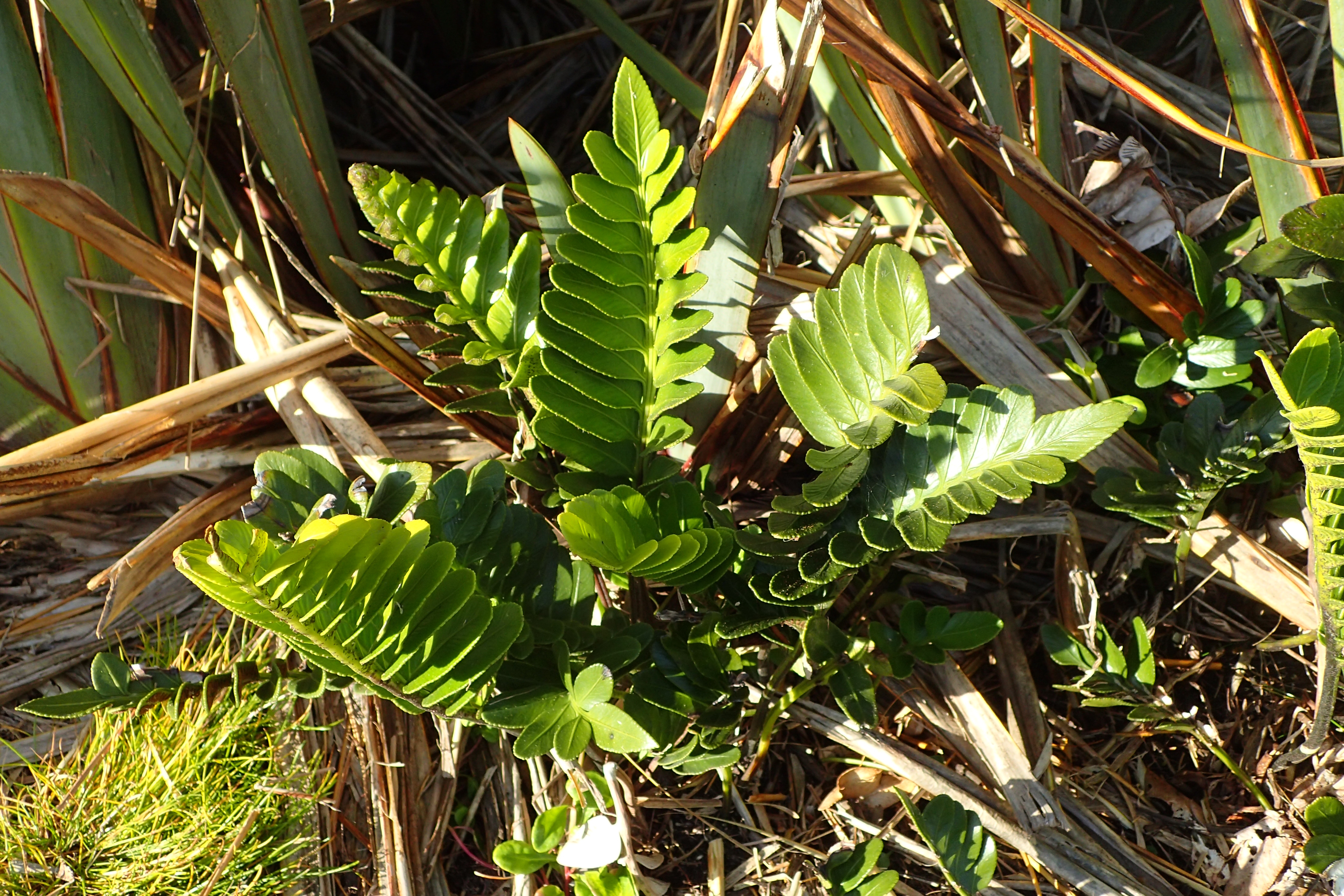 Asplenium obtusatum in Punakaiki Pancake Rocks, West Coast (New Zealand)